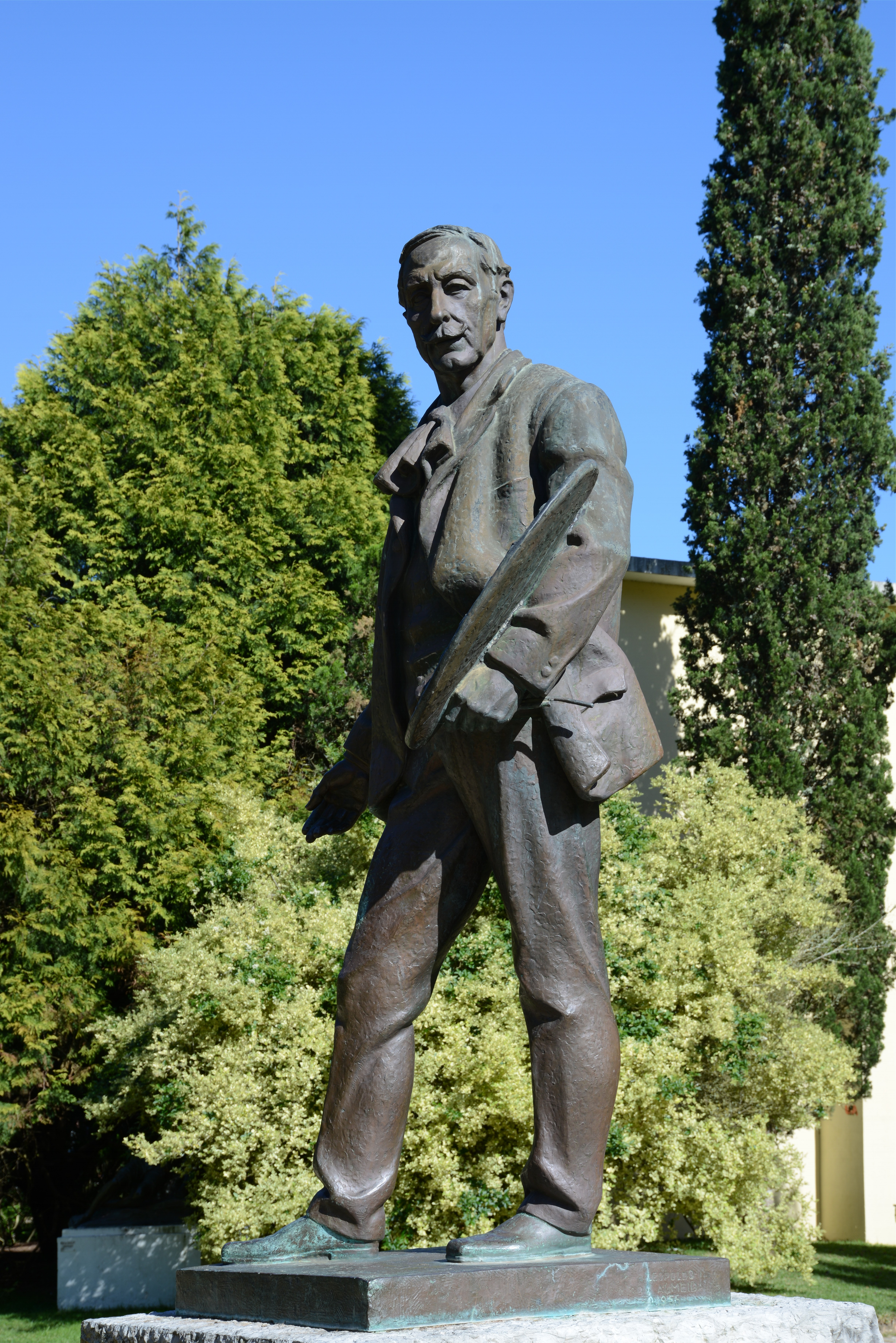 Statue of Portuguese painter José Malhoa, by Leopoldo de Almeida, in Parque Carlos I. Caldas da Rainha, Portugal.